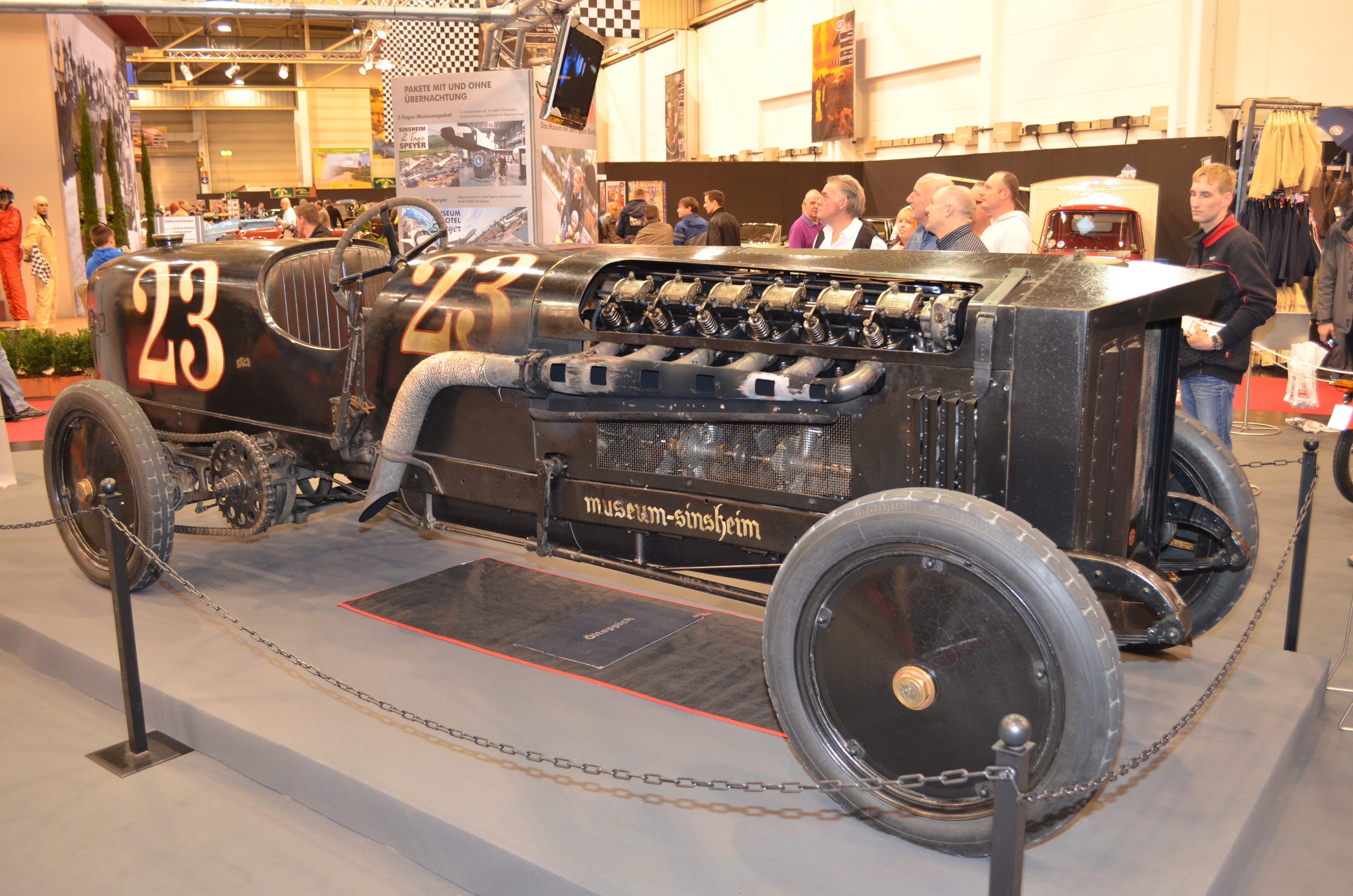 Motorshow_Essen_2013-11-30 11-26-41